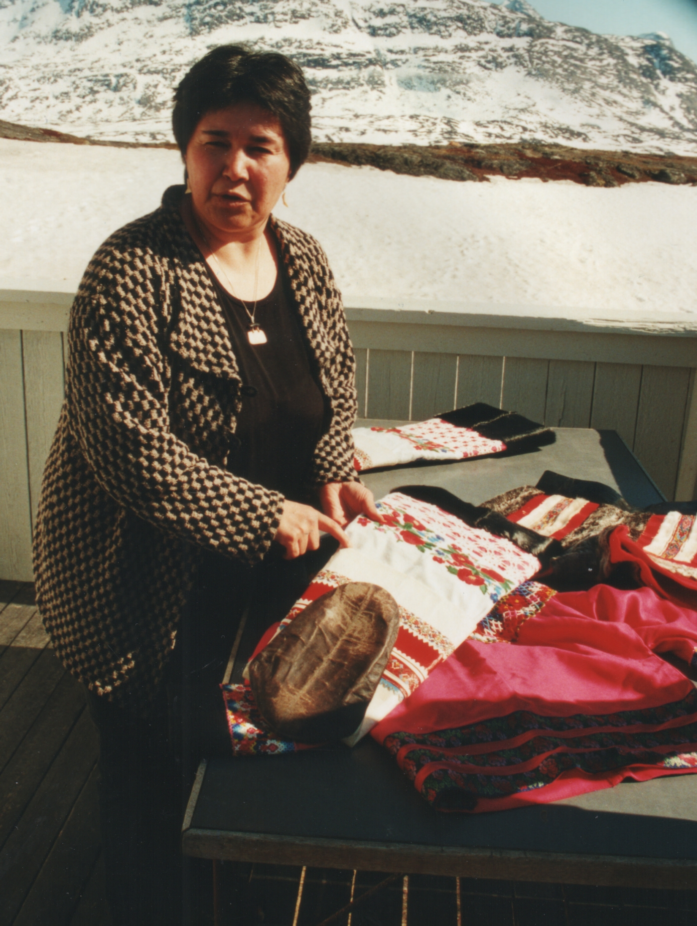 A Greenlander shows the traditional clothing of her daughter on the balcony, in Nuuk, the capital city.